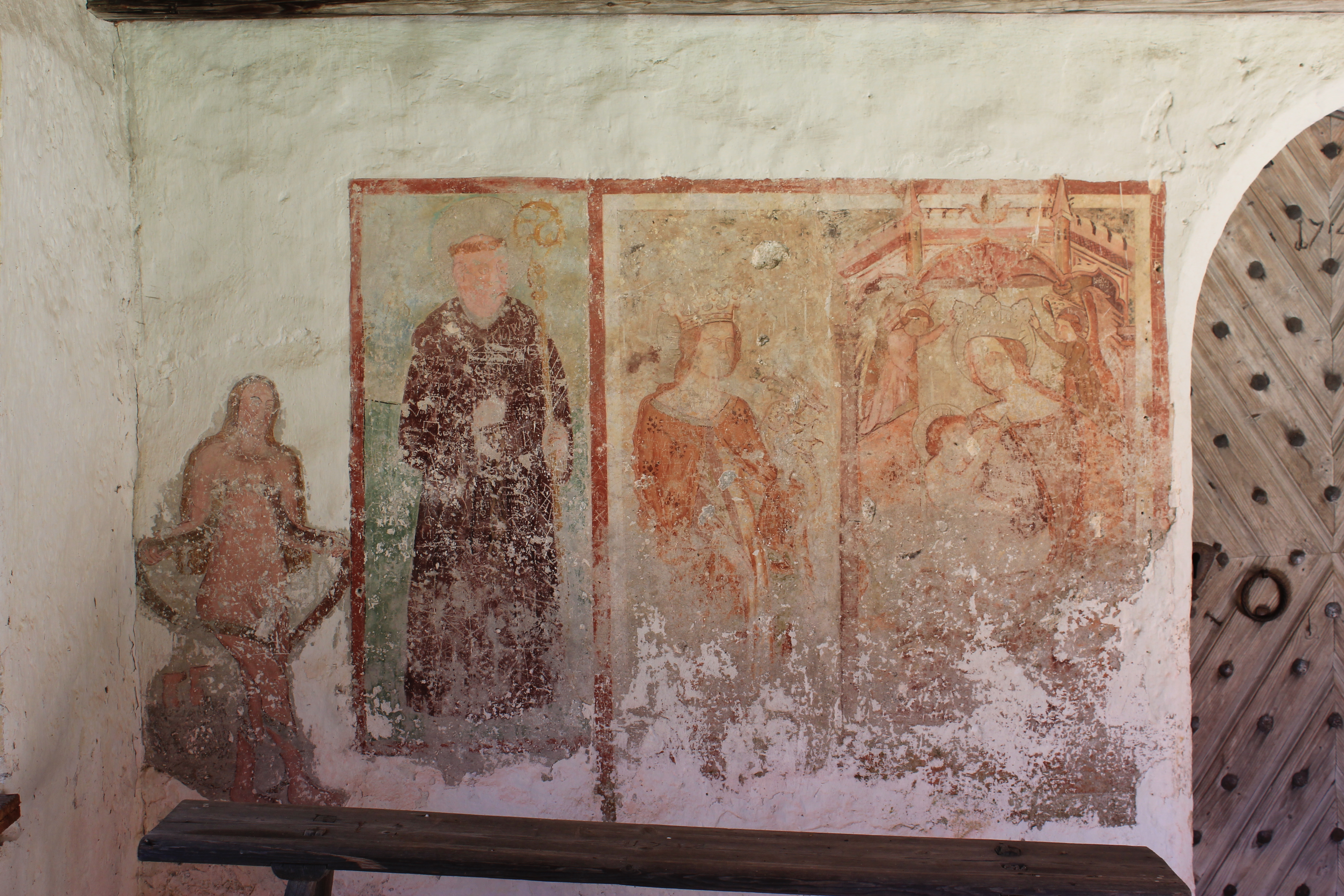 Church in Latschach in the community of Hermagor